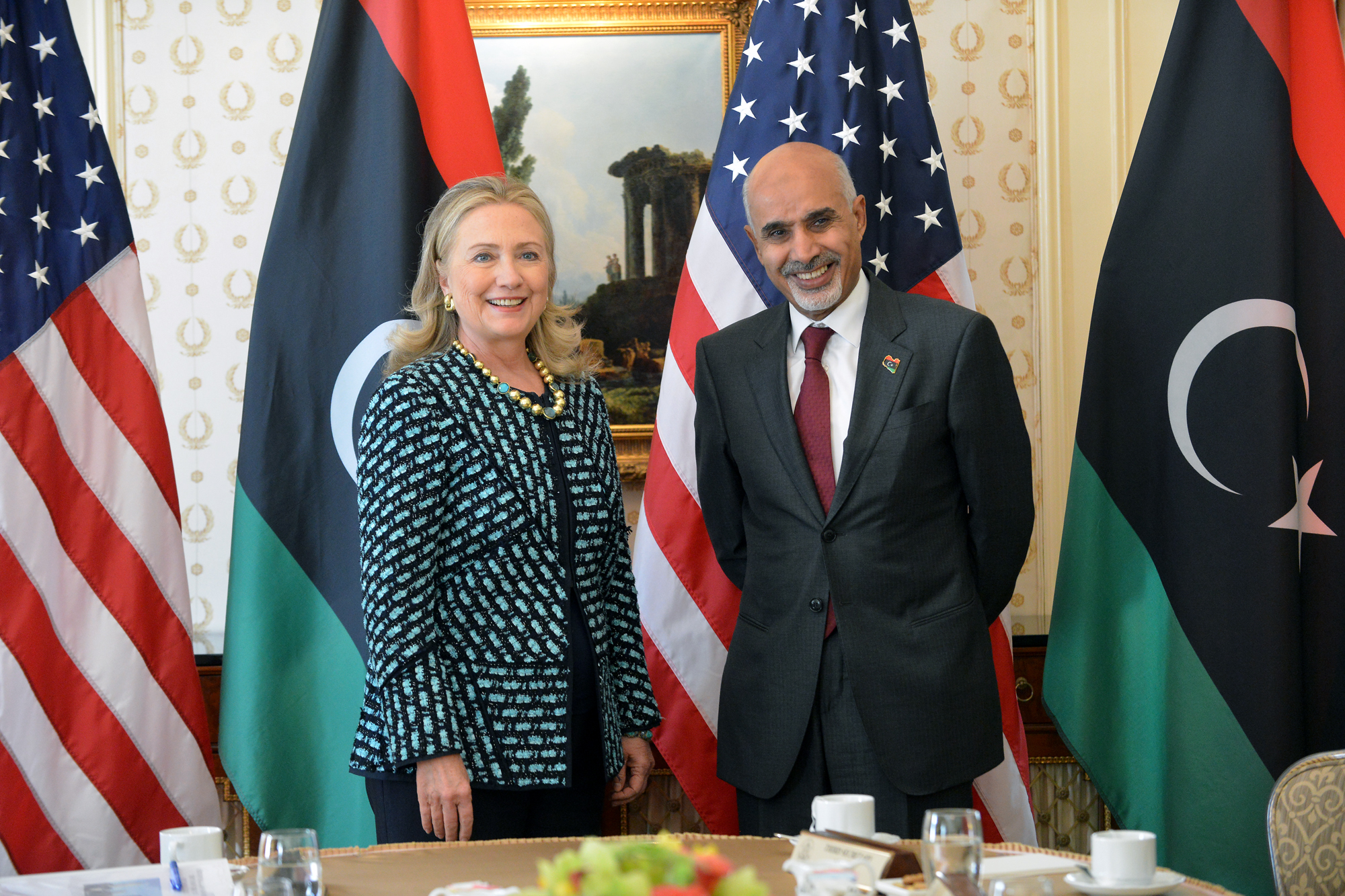 Libyan President Mohammed Magariaf, alongside former United States Secretary of State Hillary Rodham Clinton in New York City, on September 24, 2012.